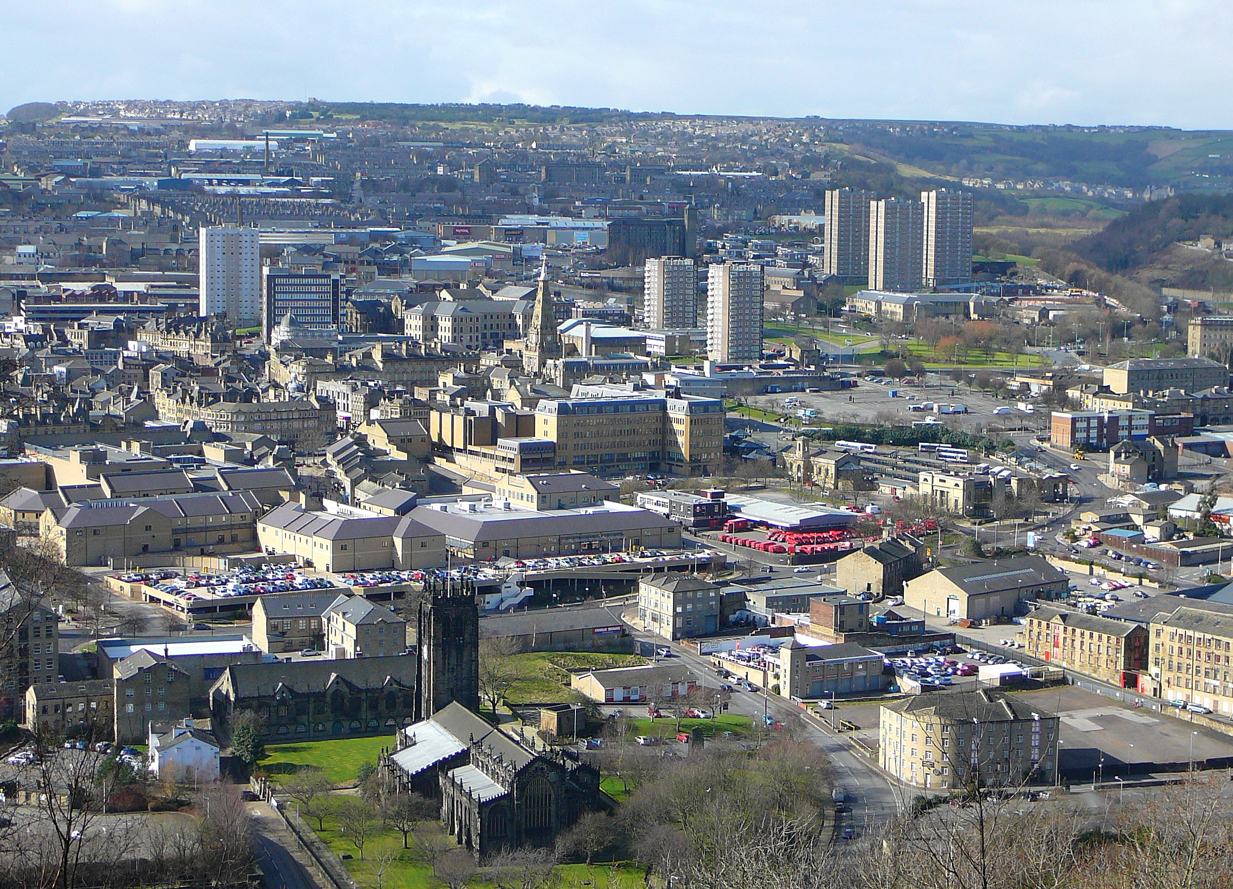 Halifax: main church, Piece Hall with surrounding town centre and bulk of the town which ascends the rest of the much gentler west bank of the Hebble Brook beyond. This long vista is taken from the public space of the bluff (Summit Hill) on the east bank of the brook.